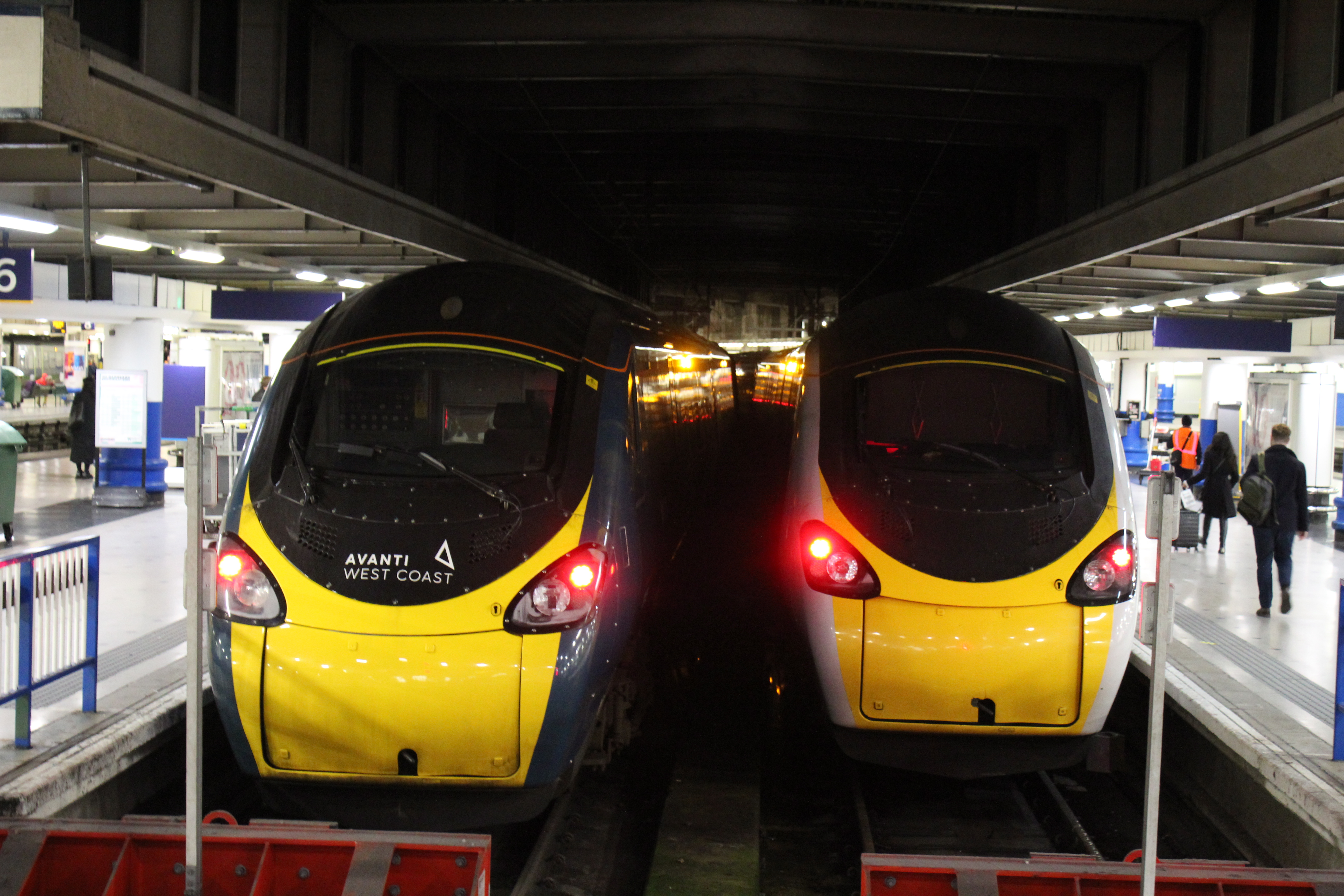 Avanti West Coast Pendolinos are seen at London Euston. The left unit is in the Avanti livery, while the right unit is only in plain white.